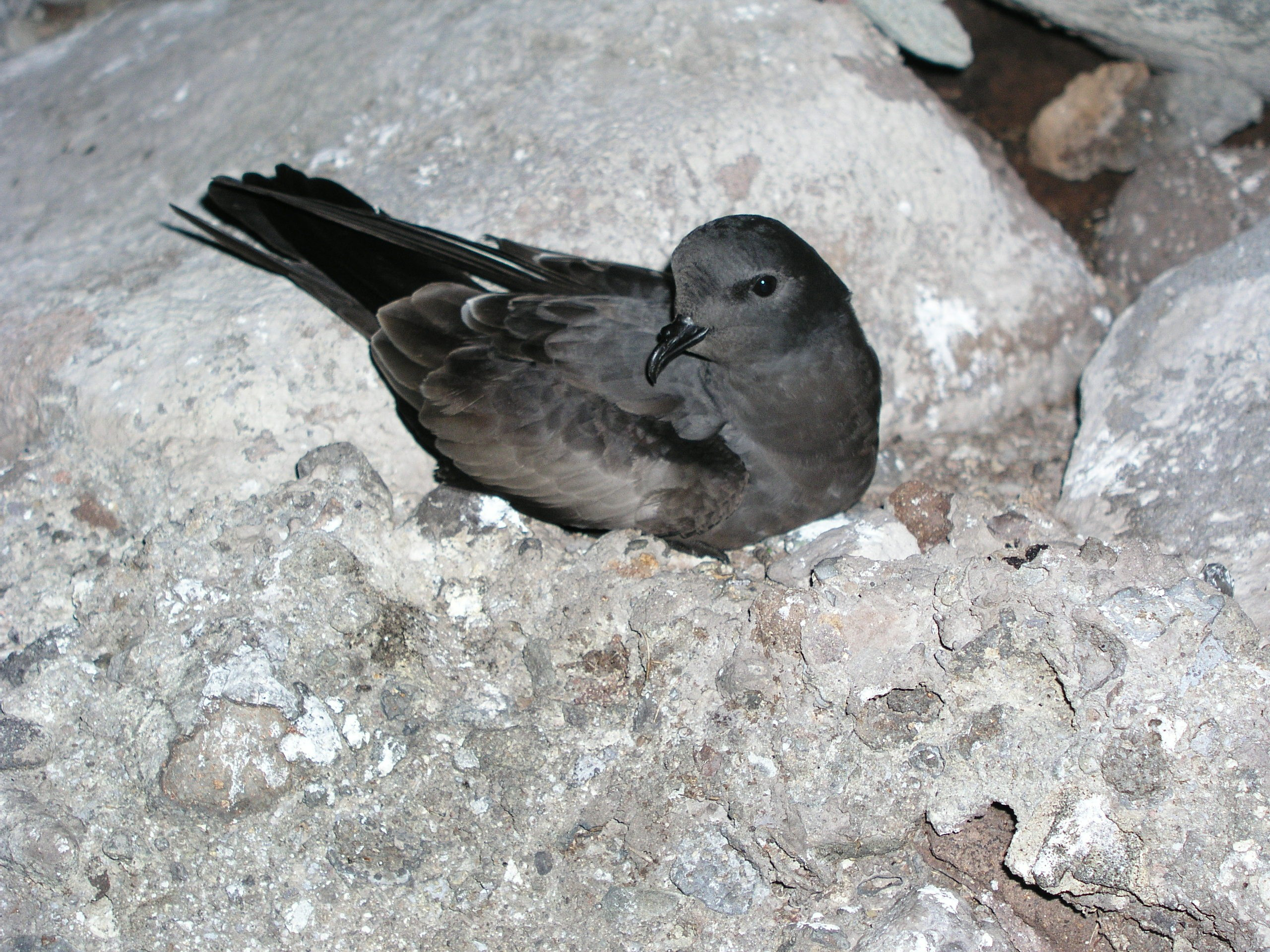 Tristram's storm petrels are found throughout Papahānaumokuākea Marine National Monument. One of the largest colonies exists on Nihoa. These well-protected islands and atolls constitute the most important breeding areas for this species left on earth.